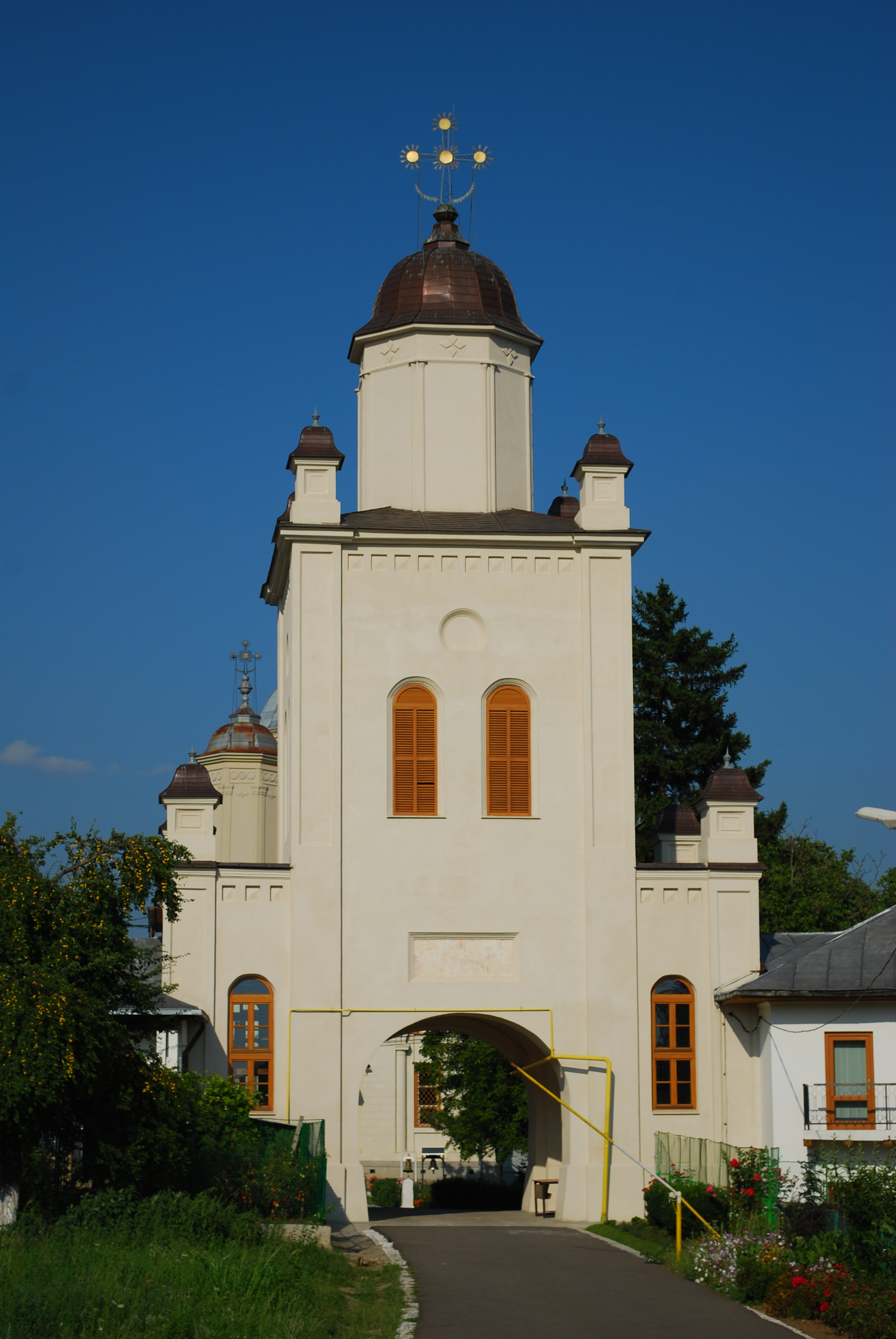 Belfry of the Pasărea monastery in Cozieni, Brăneşti commune, Ilfov County, RomaniaRomână: Turnul clopotniţei mănăstirii Pasărea din Cozieni, comuna Brăneşti, judeţul Ilfov, România